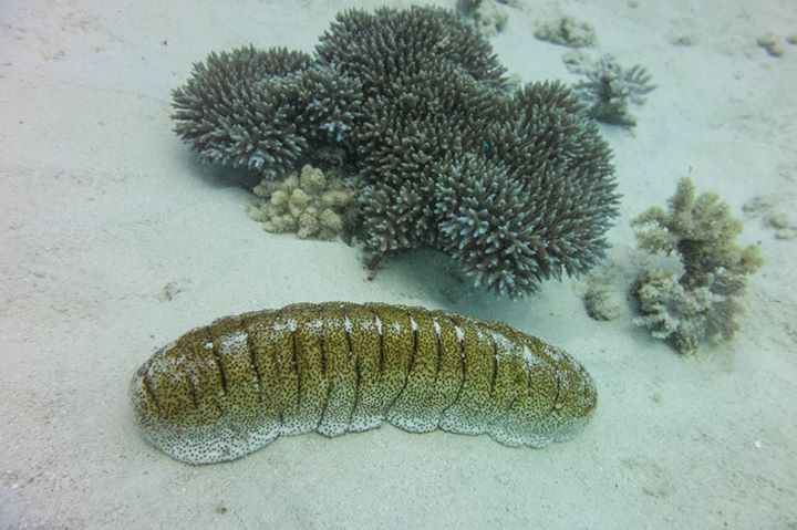 Sea cucumbers (here Holothuria fuscopunctata) are not the most exciting animals, but they certainly are important to marine ecosystems. They are echinoderms (a phylum that also includes sea stars and sea urchins) that feed on plankton and decaying organic matter on the seafloor. So, basically, they are the ocean's vacuum cleaners. In fact, they're a lot like your friends who ask, "Are you going to eat that?" whenever there's old food you don't want left in the fridge. View image on my site: bit.ly/17l5vvH My website: bit.ly/VIb9Ev Facebook: on.fb.me/13IOQ1G Twitter: bit.ly/VIb9Ex Tumblr: bit.ly/13IOSXc Pinterest: bit.ly/VIb9Ez YouTube: bit.ly/13IOQ1I